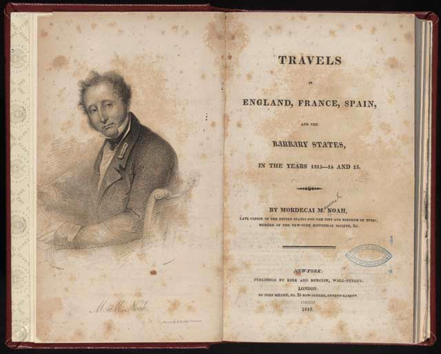 Travels in England, France, Spain, and the Barbary States, in the Years 1813-14 and 15 by Mordecai Manuel Noah New York: Kirk and Mercein, 1819.